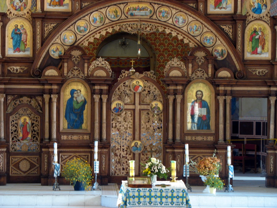 Jarosław (Poland), Greek Catholic church